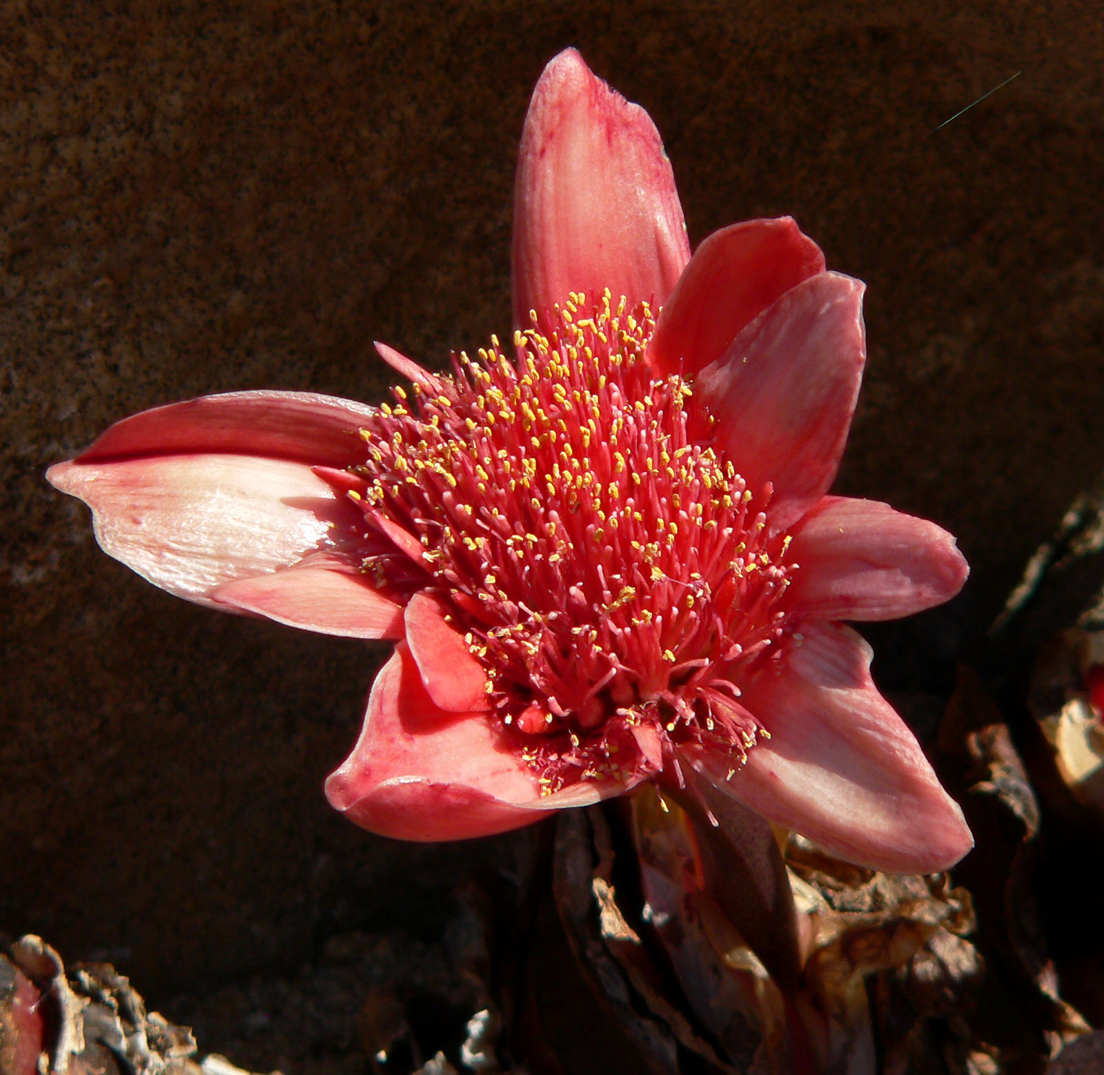 Haemanthus coccineus at the University of California Botanical Garden, Berkeley, California